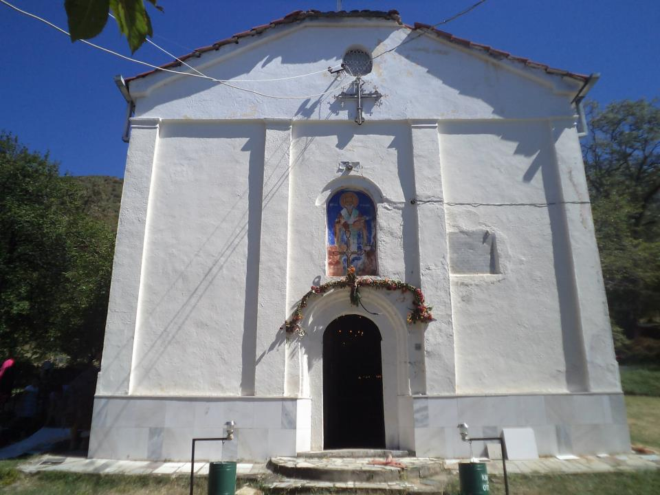 St. Nicholas Church in Prilepec